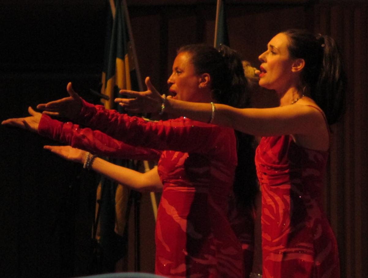 Caroline Gentele & Divine group perfoming at Veteran's Day concertPlace: Berwald Hall, Stockholm, Sweden